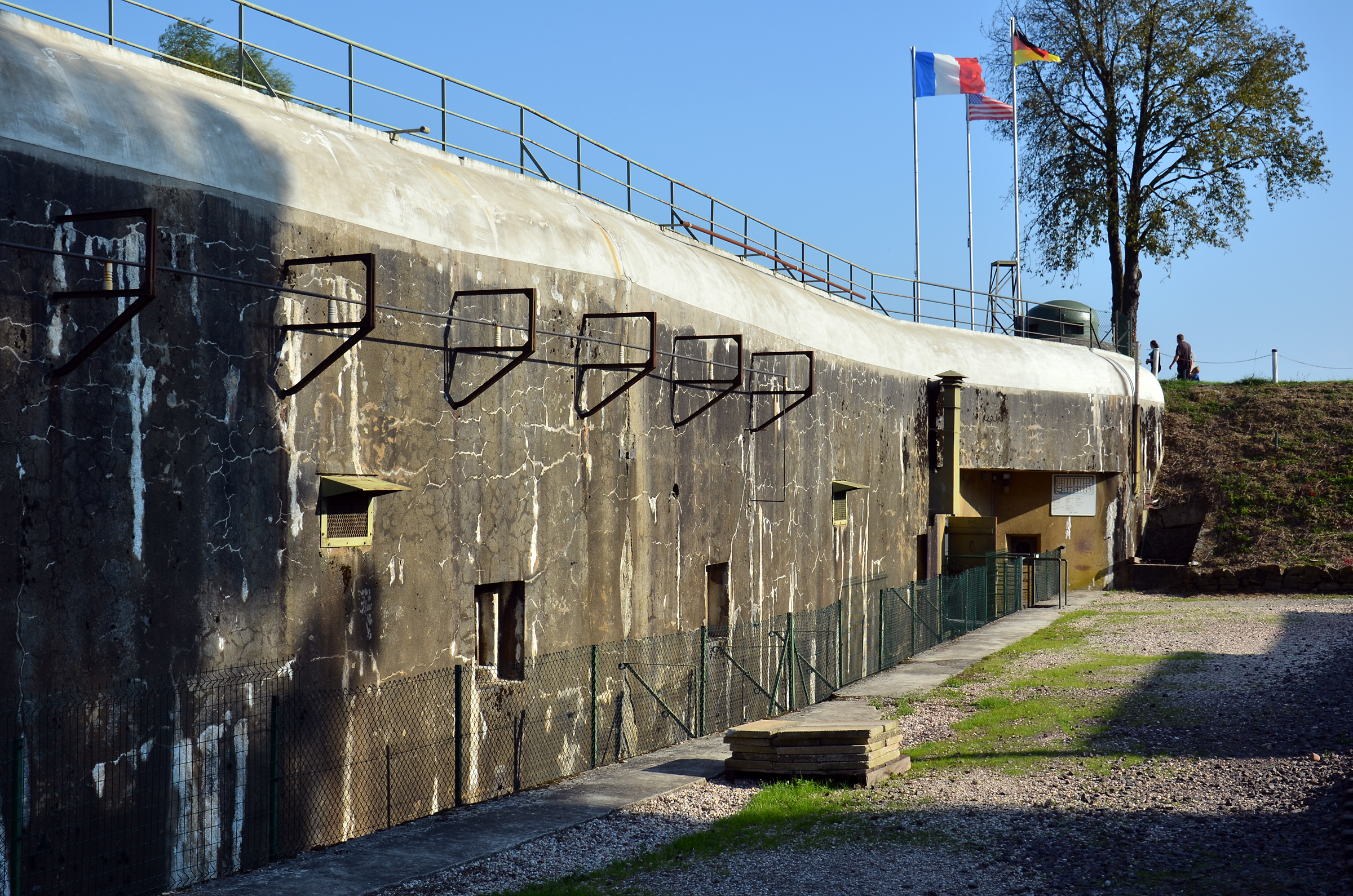 WW II Historical Museum Hatten, (Musée de l'Abri de Hatten)